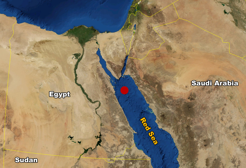 Al-Salam Boccaccio, image showing location in the Red Sea